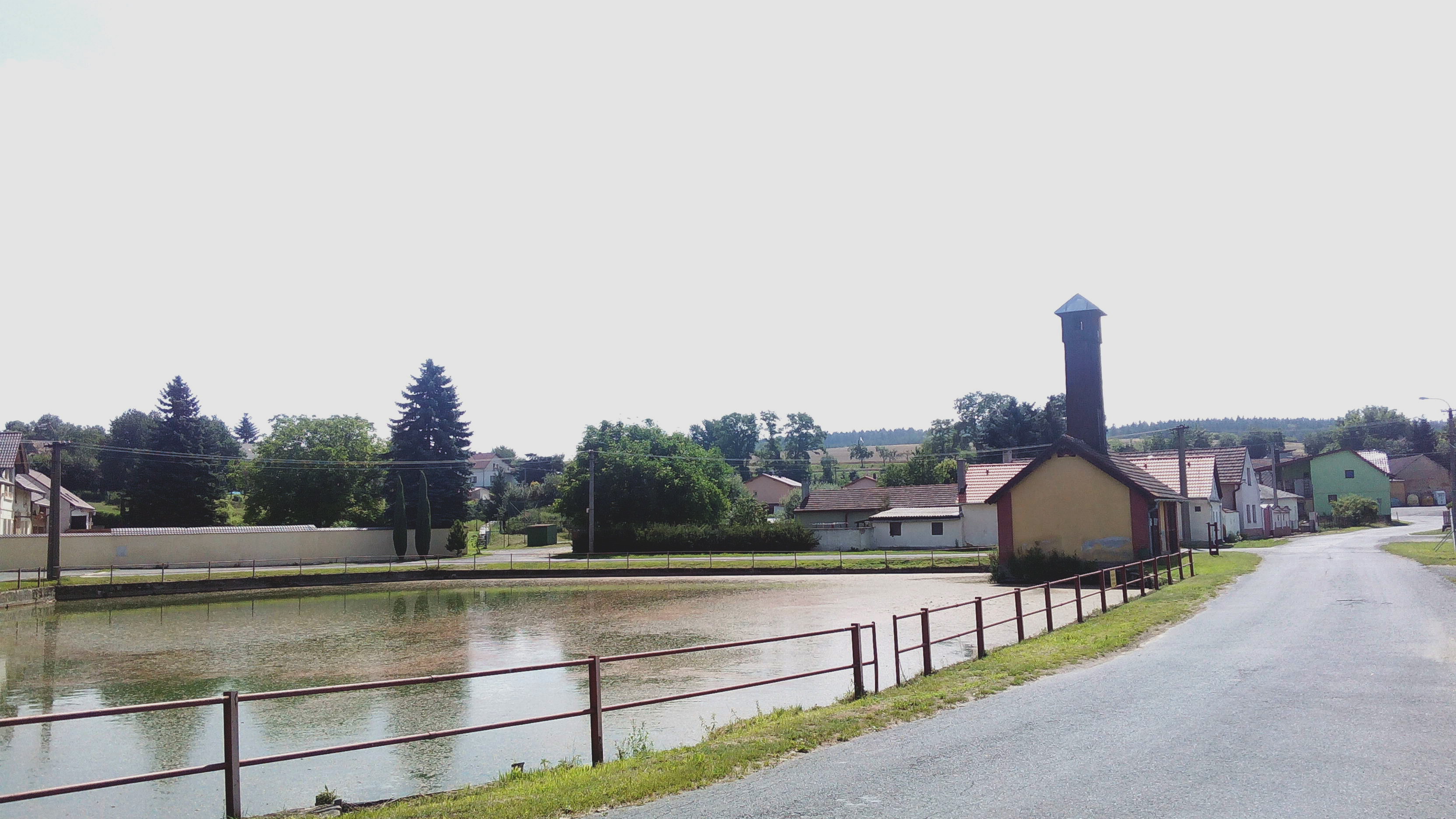 Village green in Třebnice, Domažlice district, Plzeň Region.